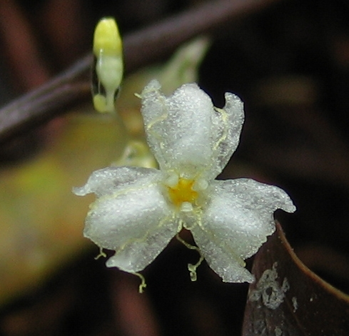 Gymnosiphon longistylus, Douala-Edea Reserve, Cameroon. Taken on 27/09/2006. This versioon an excerpt. Please check link below for original version.